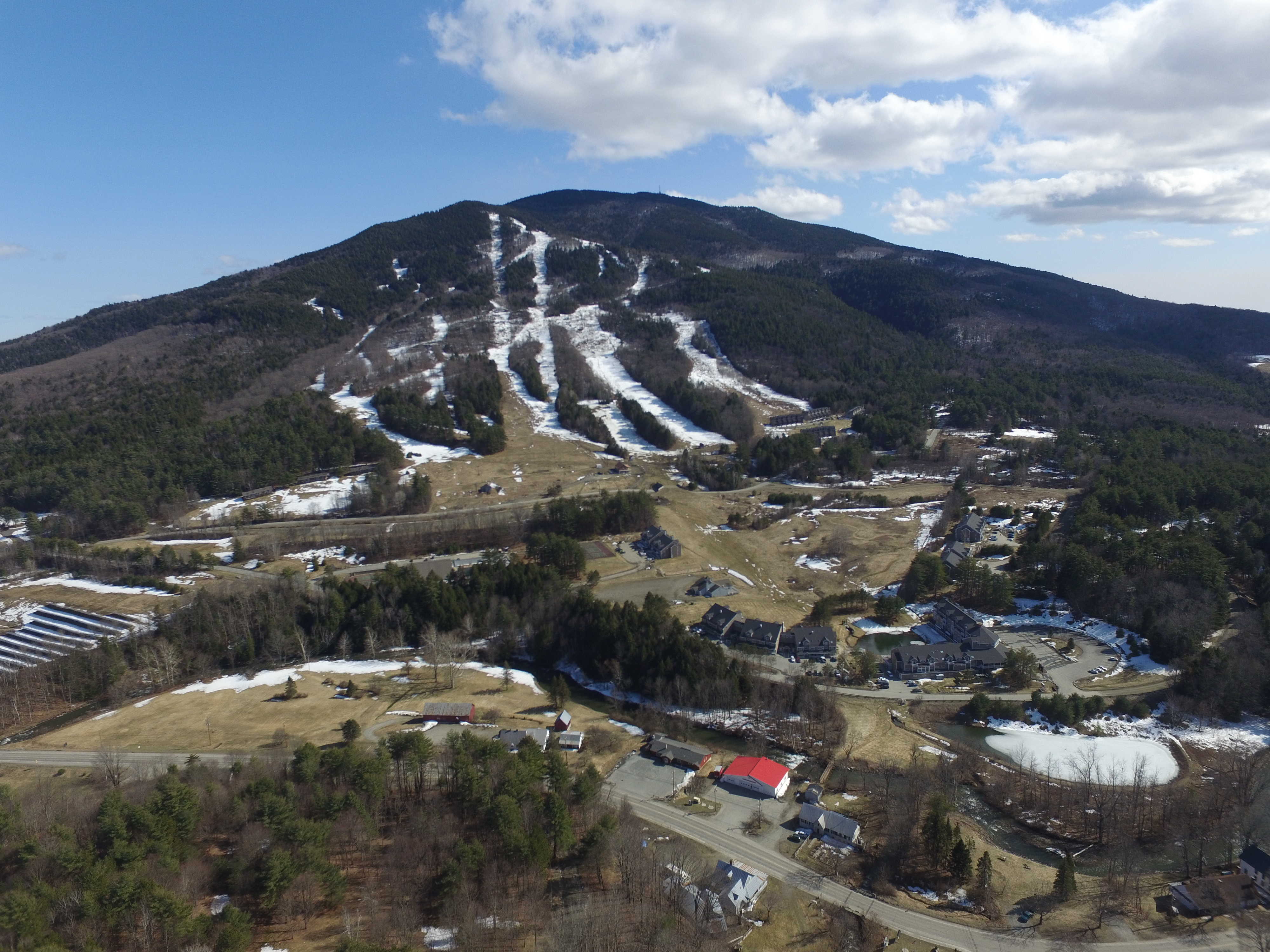 An aerial photograph of Mount Ascutney